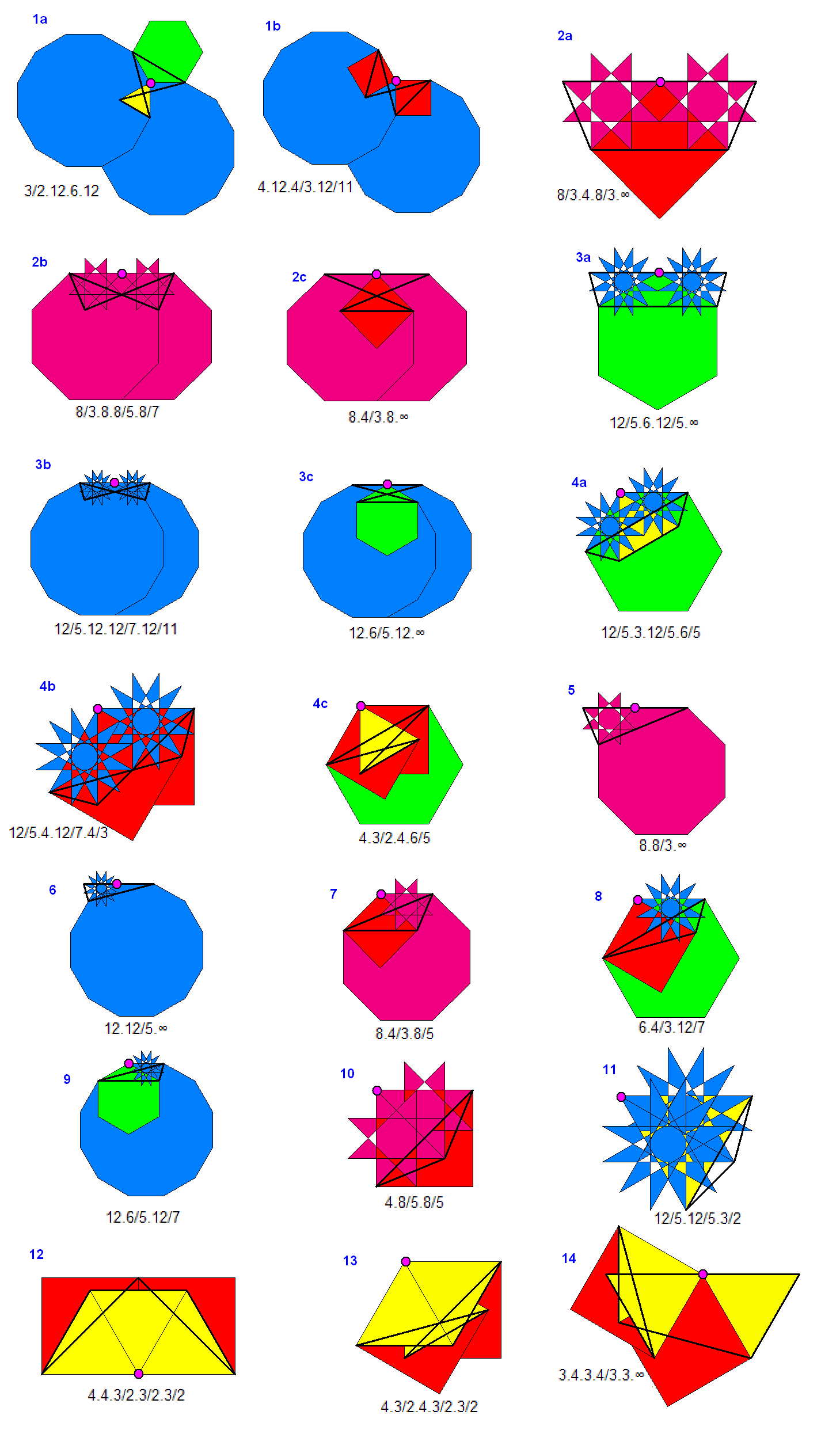 uniform tiling vertex figures for nonconvex forms